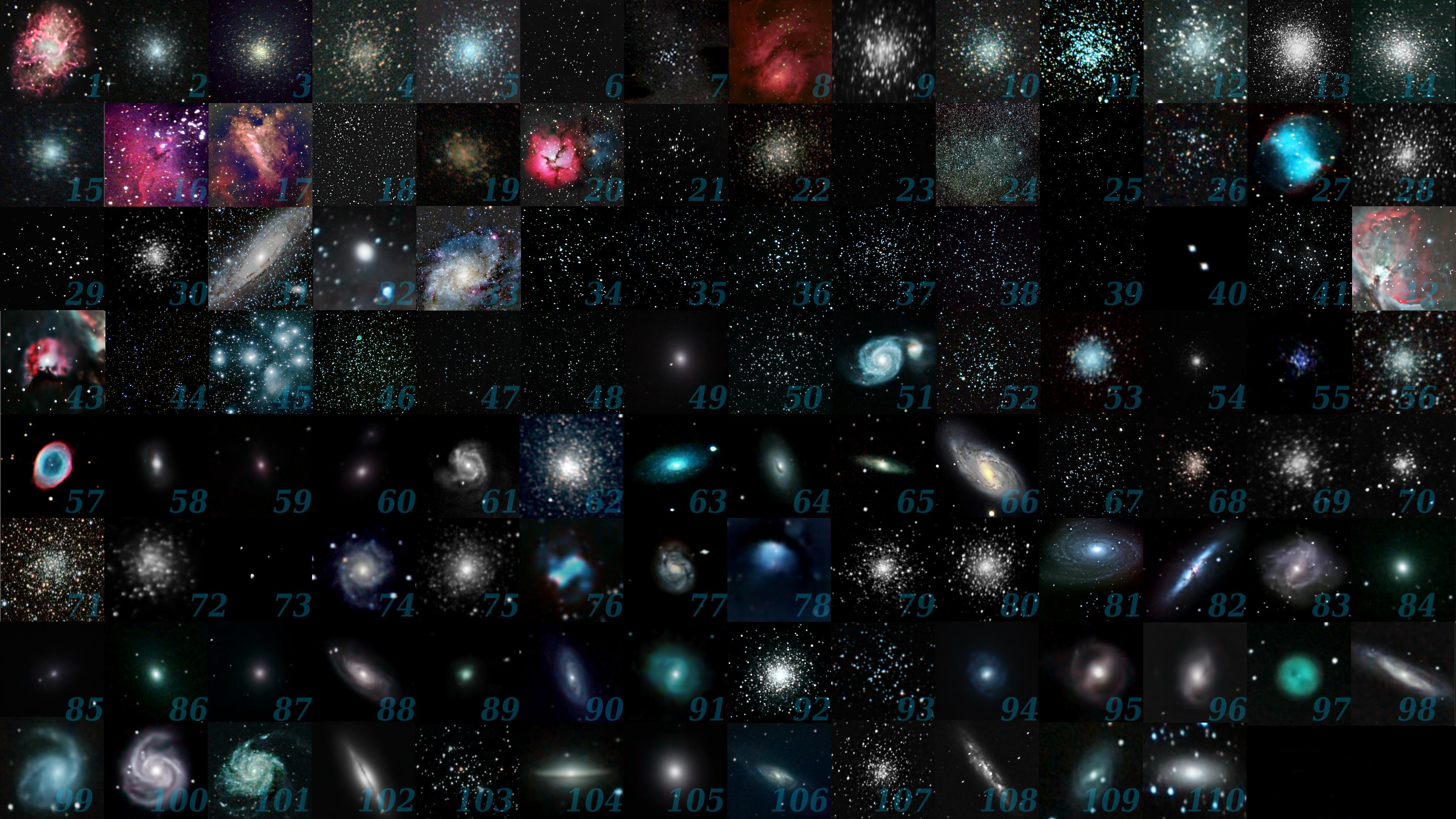 Compilation made by an amateur astronomer